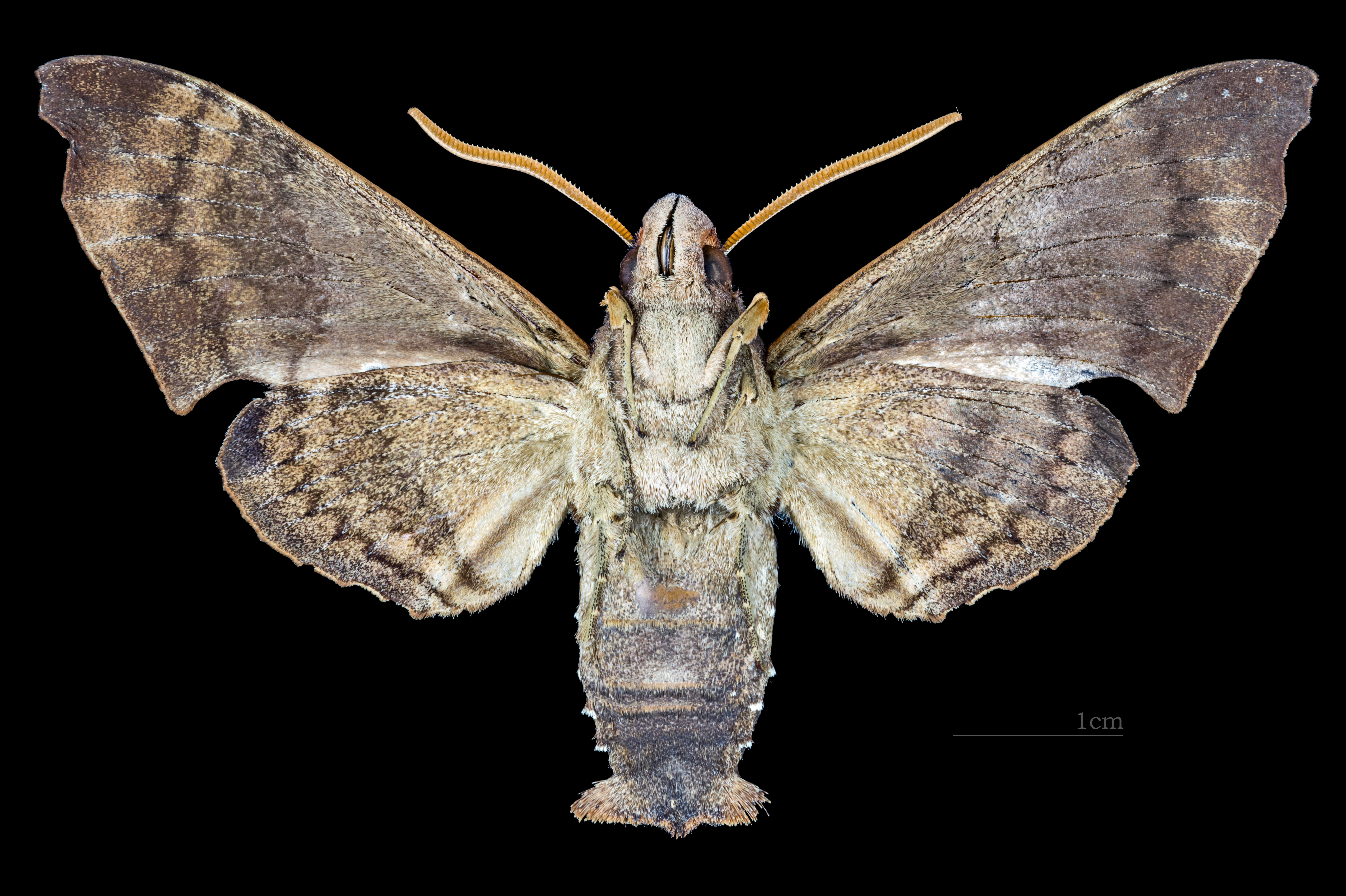 Pachygonidia martini - △ Ventral side